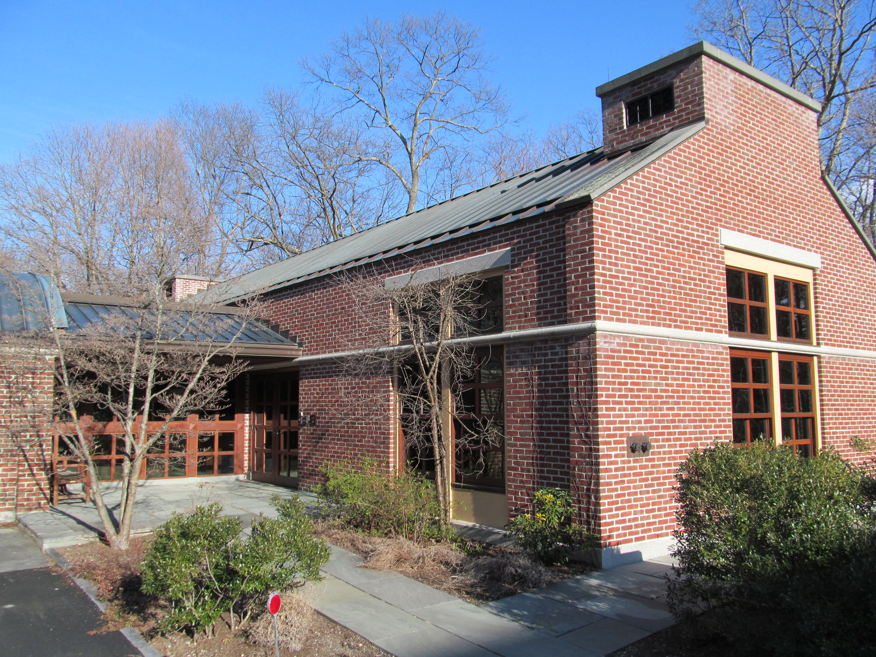 The Walden Woods Project's Thoreau Institute Library, Lincoln Massachusetts